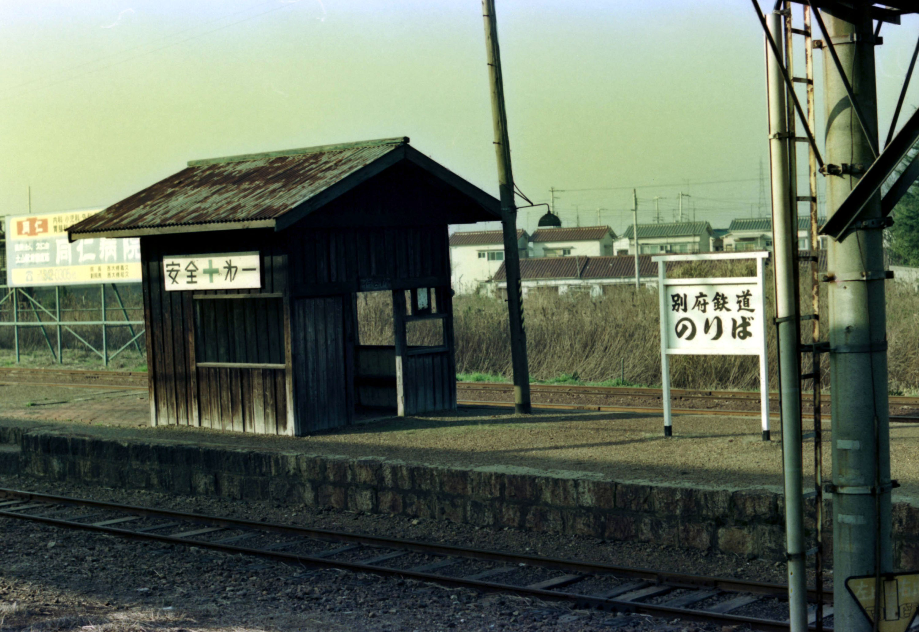 Befu Railway Tsuchiyama Station